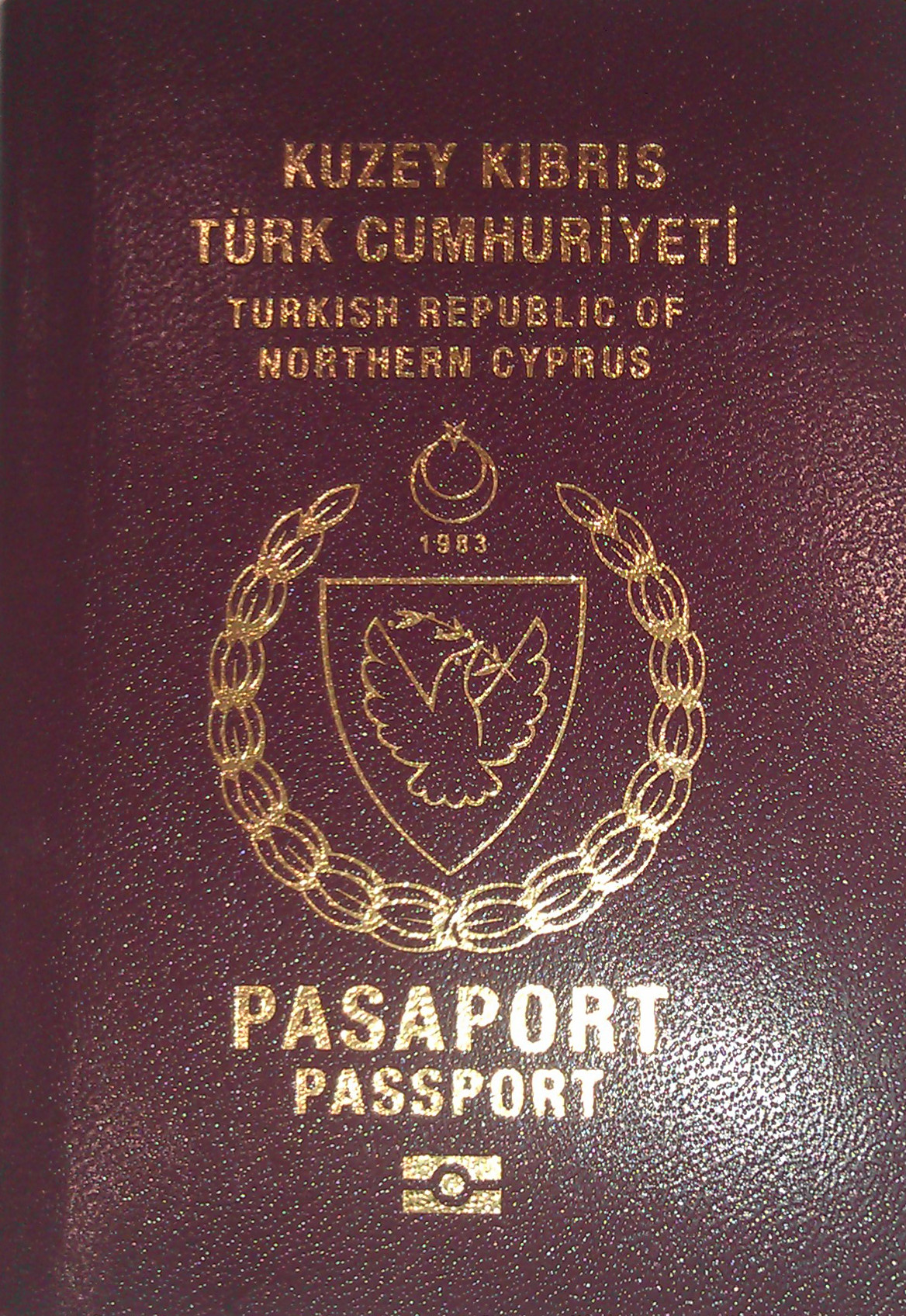 Northern Cyprus biometric passport